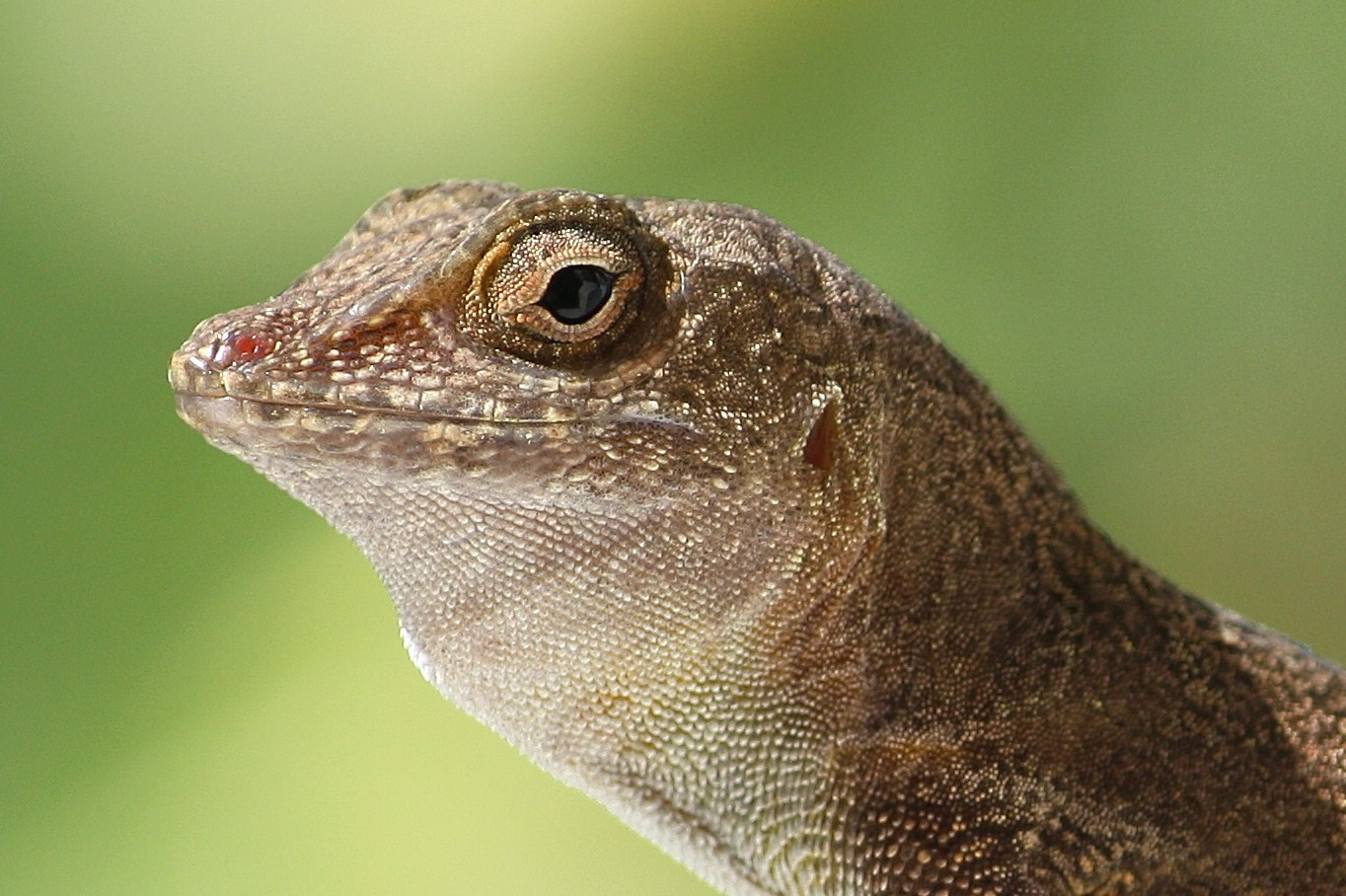 Puerto Rican Crested Anole (Anolis cristatellus); closeup of head. Picard, Dominica.